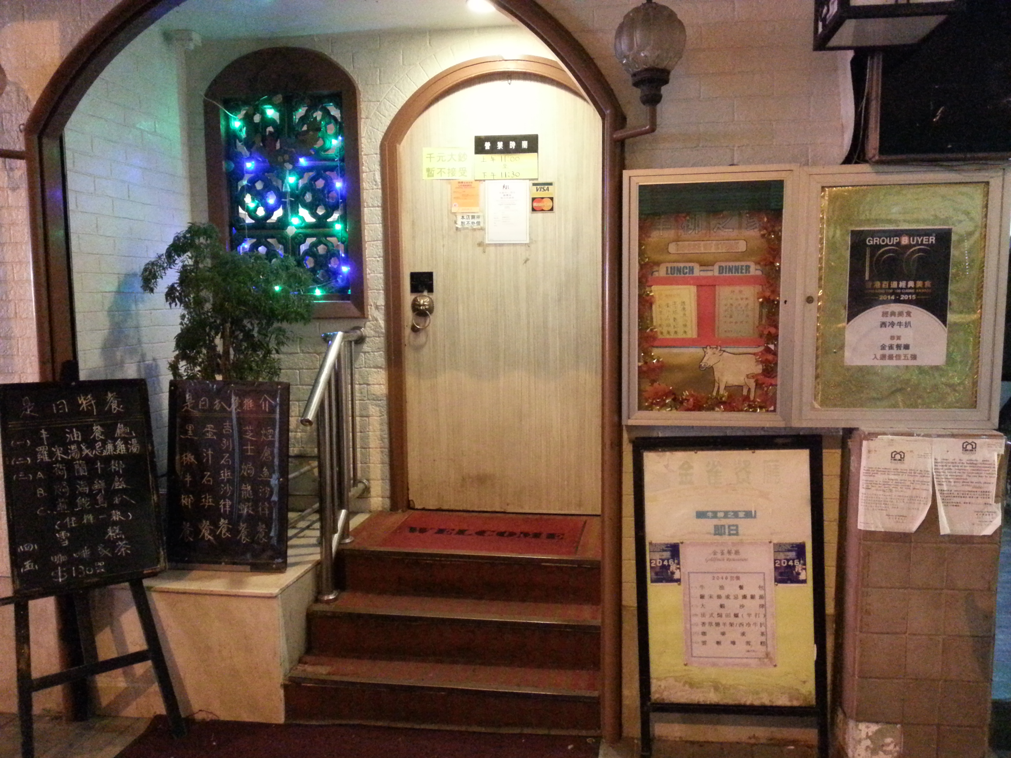 Goldfinch Restaurant entrance, and promotional menu, at Lan Fong Road, Causeway Bay, Hong Kong 2015-09-20